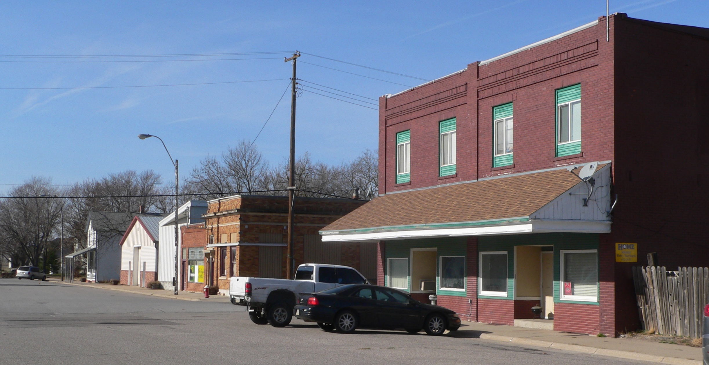 Downtown Cortland, Nebraska: north side of 4th Street. Camera is facing northwest.